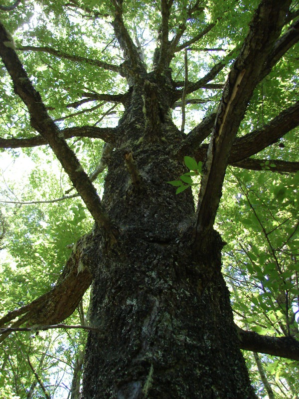 Nothofagus alpina